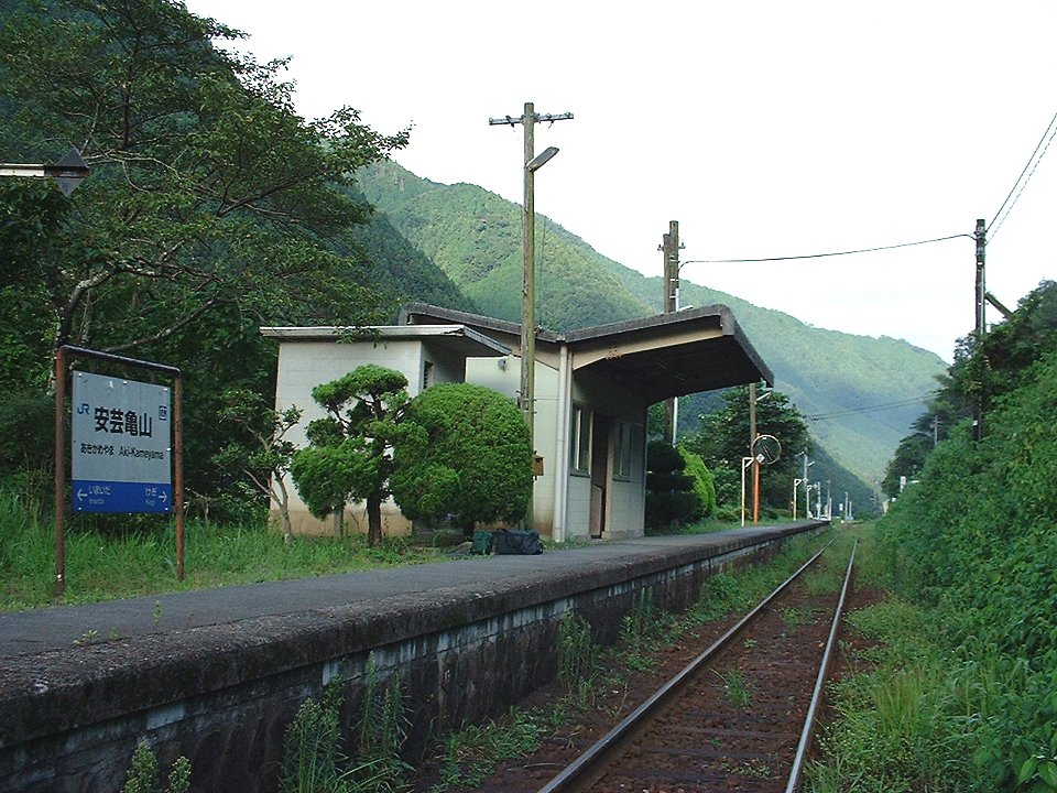 Aki-Kameyama Station on the suspended part of the Kabe Line in Hiroshima, Hiroshima Prefecture, Japan.